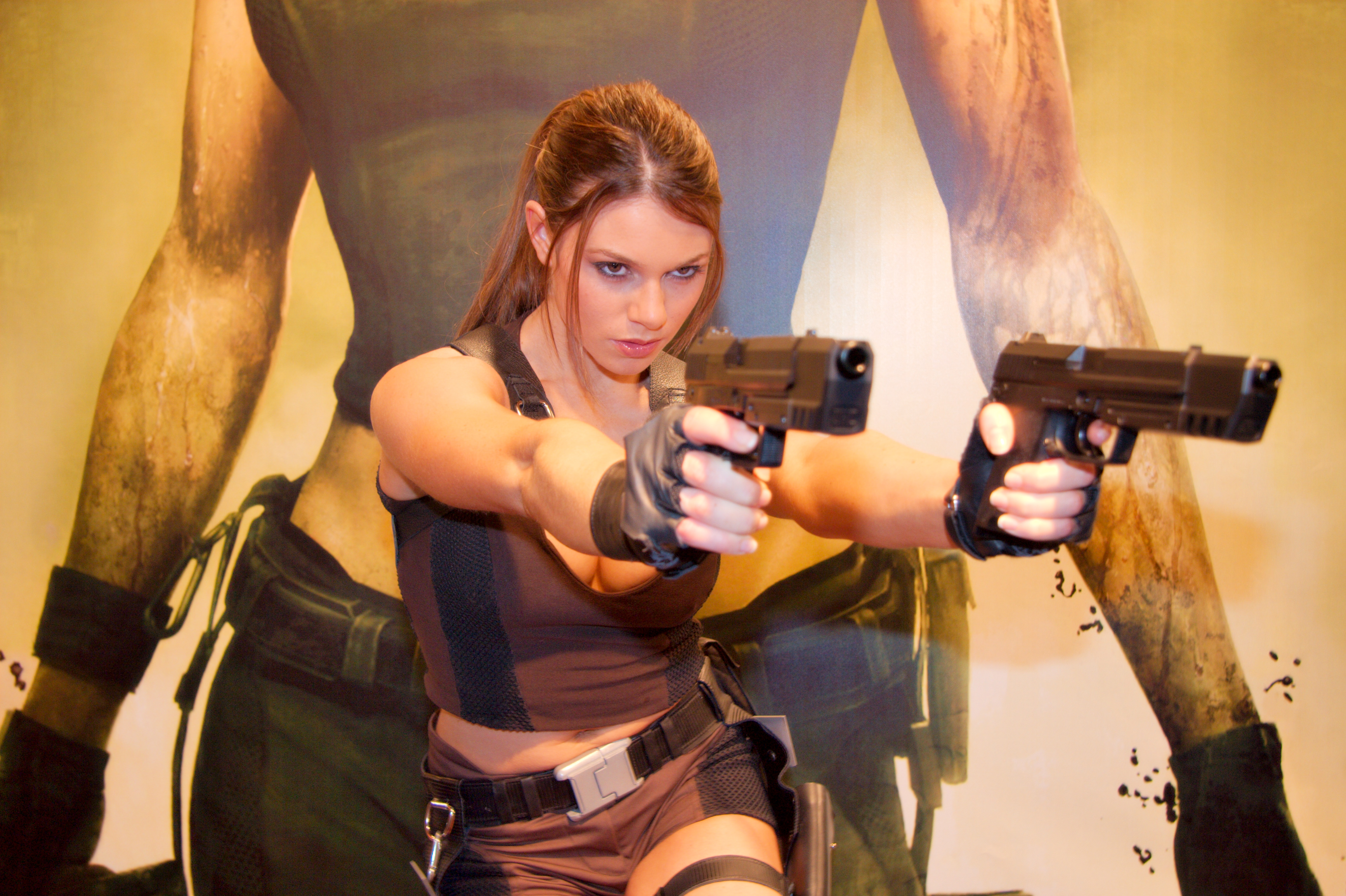 Alison Carroll, the official Lara Croft model for Tomb Raider: Underworld at Festival du jeu vidéo 2008 (Paris, France).